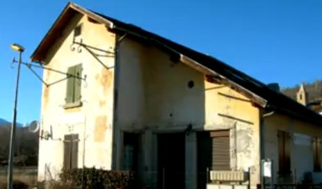 Train station of Bena-Feners, in the French commune of Enveitg